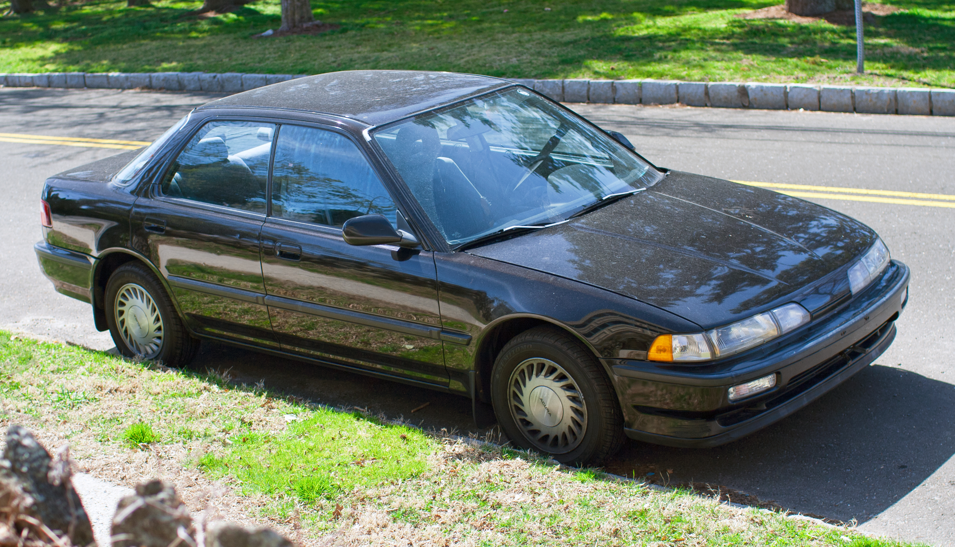 1990 Acura Integra GS. 1.8 liter engine, five-speed manual!